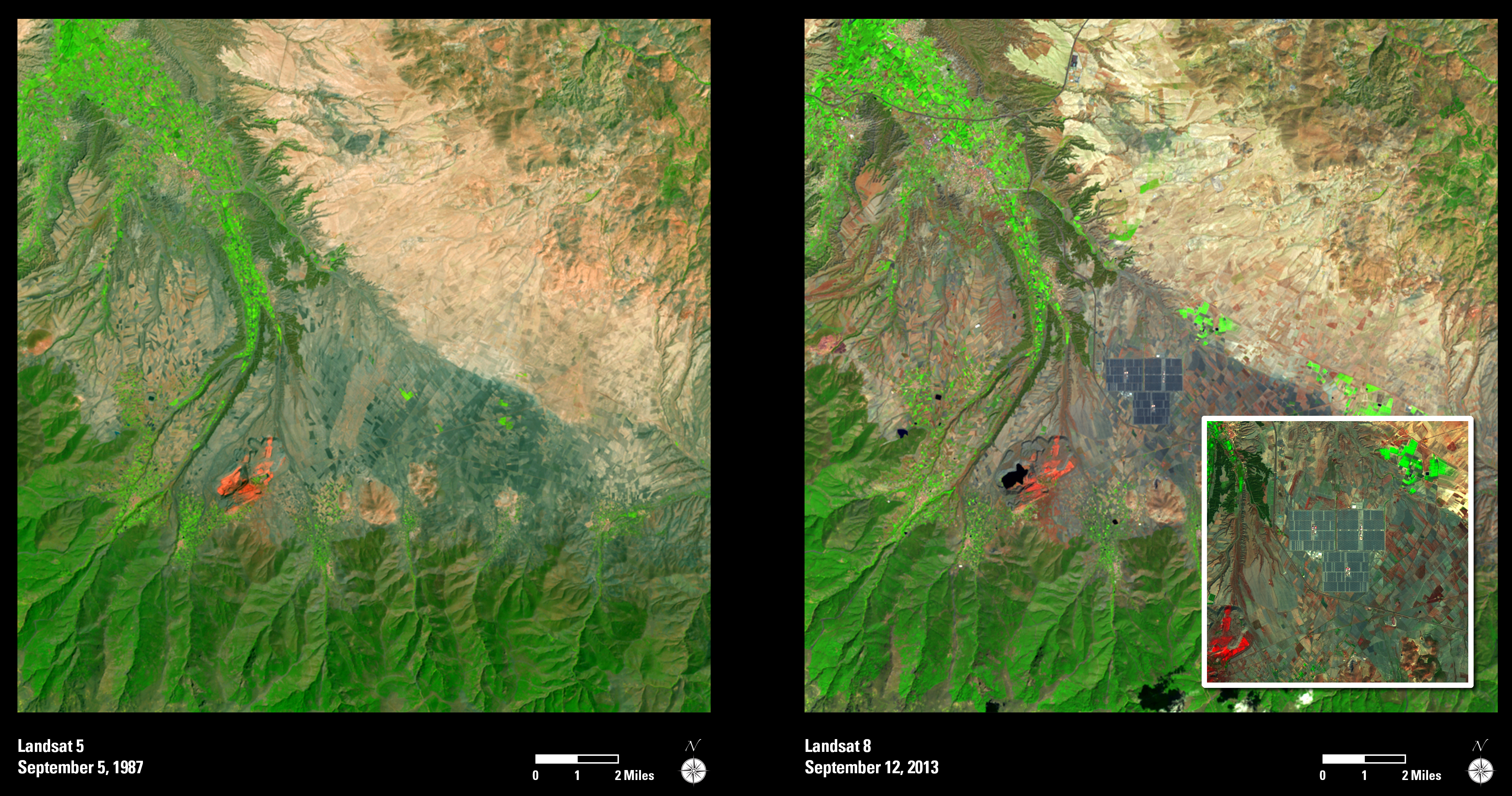 Andasol Solar Power Stations In March 2009, the Andasol-1 solar power station became the first solar thermal collector station in Europe. Andasol-2 and Andasol-3 followed in 2009 and 2011. Located in southern Spain, these stations are using a very different technology compared to traditional photovoltaic (PV) solar panel collection systems. These parabolic trough power plants absorb the sun’s energy during the day, store it within a “heat reservoir” of molten salt, and then create electricity through the use of thermal turbines. The electricity is then distributed for up to 200,000 people in an environmentally sound fashion at relatively low cost. Due to the extensive cooling needed for a thermal power system, the stations’ location near the Sierra Nevada mountain range provides the critical water supply needed for operations. These Landsat images, acquired by Landsat 5 in 1987 and Landsat 8 in 2013, show the general area. The solar plant installations can be seen in the center of the 2013 image. The pan-sharpened inset image provides a closer view of the combined systems. The data collected by Landsat satellites over the past 40 years have contributed to a vast archive of imagery, which can be used to study and monitor changes of the Earth’s surface.